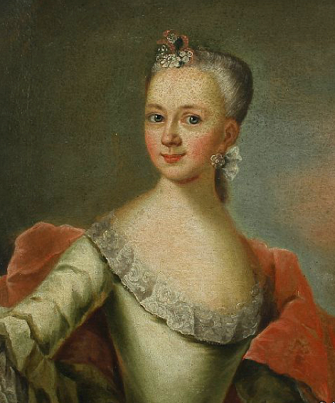 Portrait of Madam Cathrine Marie de Hansen (1720-1784)